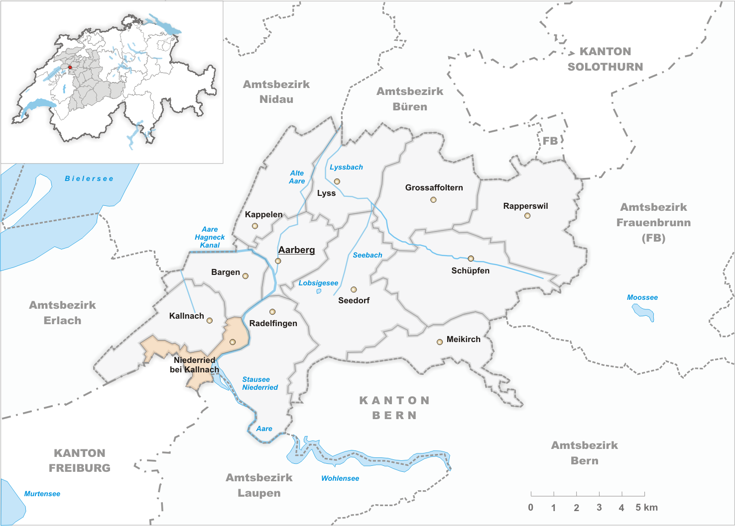 Municipality Niederried bei Kallnach